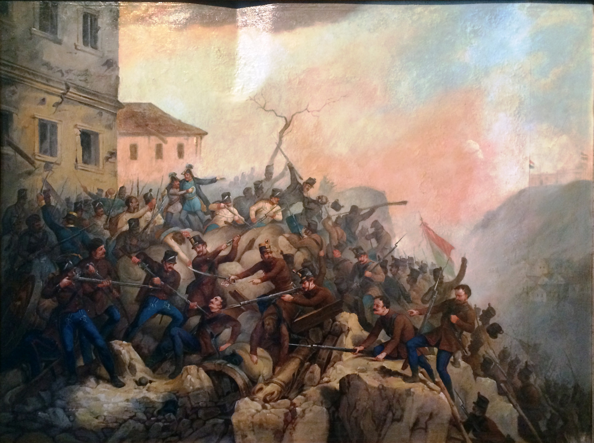 Painting from 1849 by Josef Anton Strassgschwandtner, depicting the siege of Buda (Budapest). Display at the Budapest History Museum